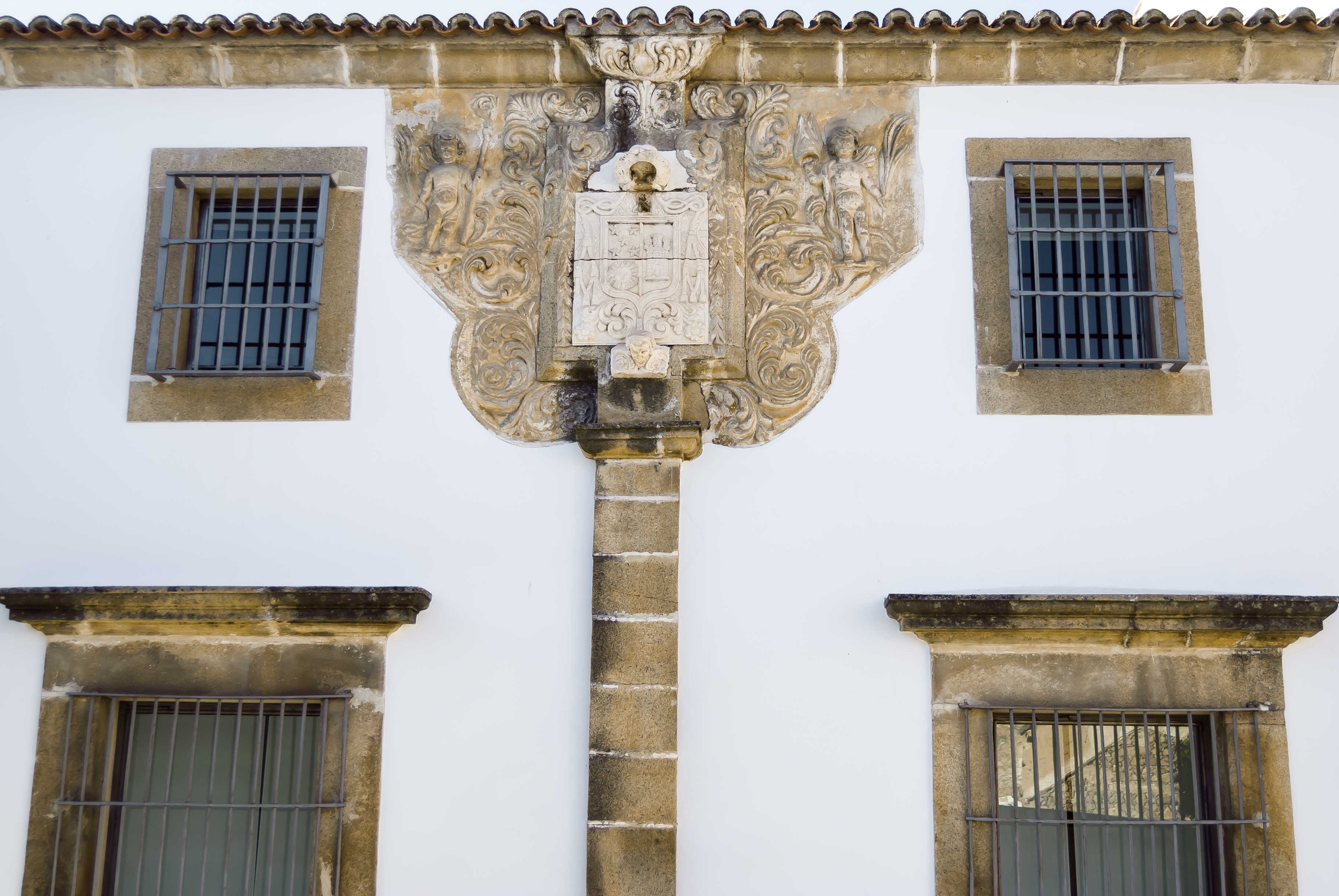 Front of the Obispo Solís Palace, in Miajadas